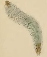 Stainton’s Natural History of the Tineina (1855–1873): Ectoedemia occultella